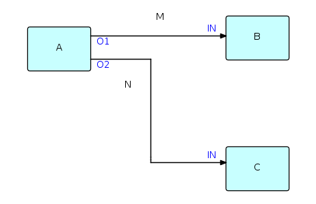 This shows a simple 3 block FBP diagram, with connections labeled